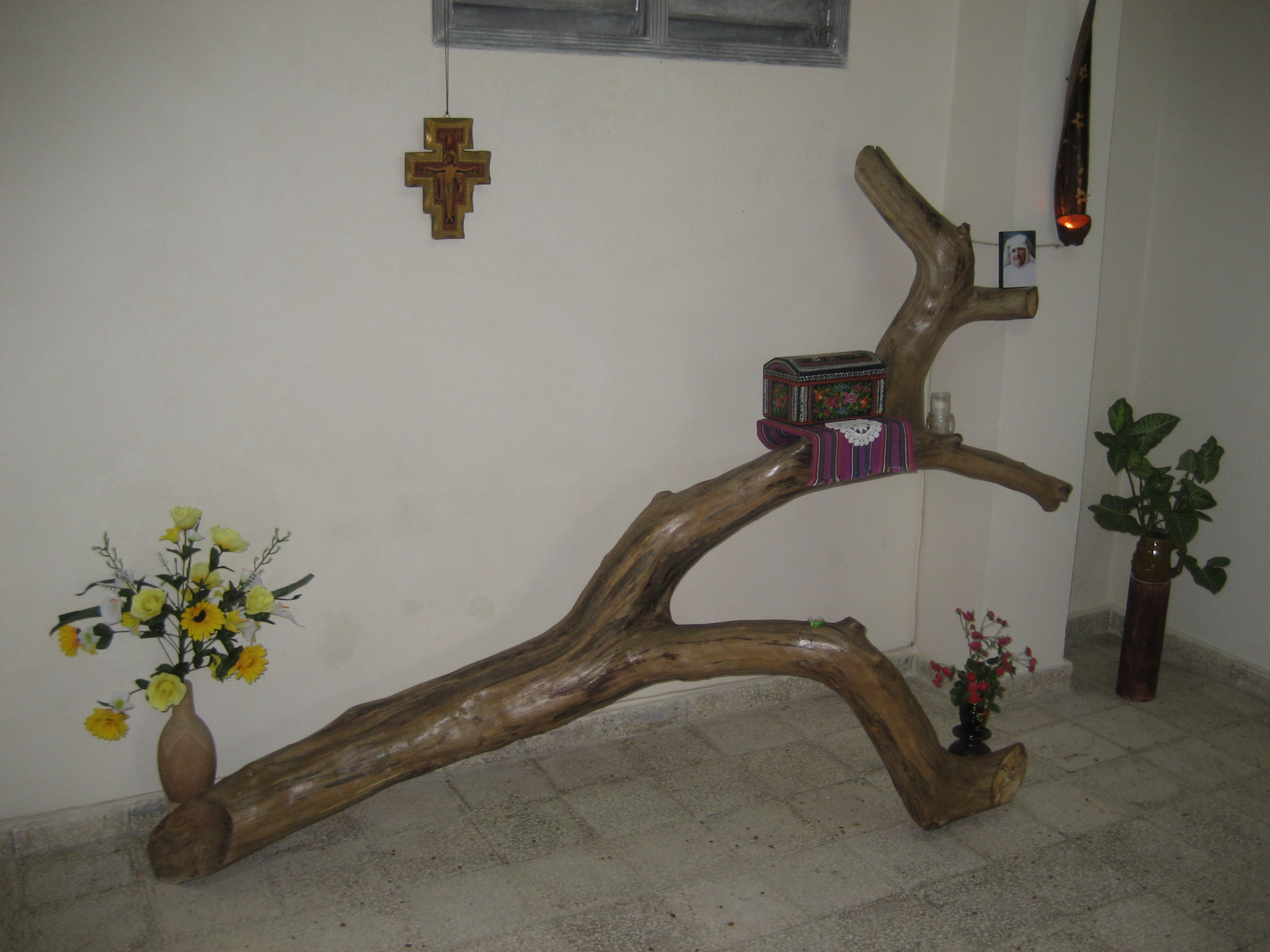 Chapel in the San José de Jatibonico Church, in Jatibonico, Cuba.